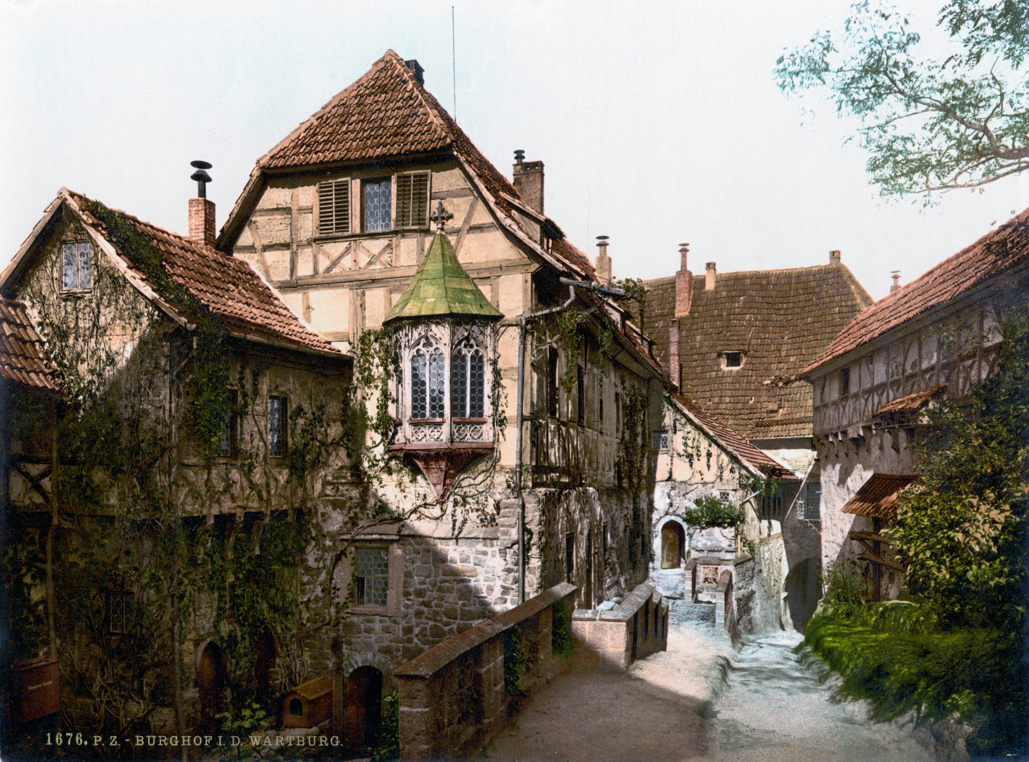 Wartburg - inner yard between 1890 and 1900